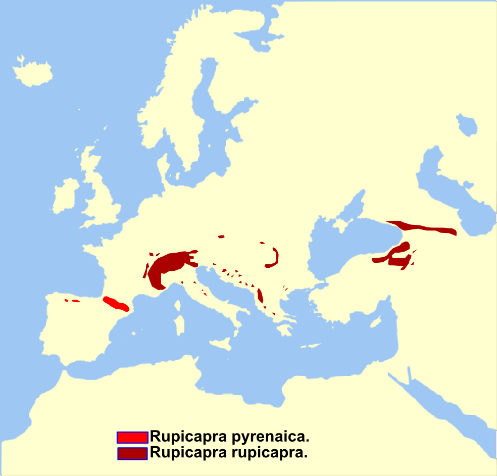 Rupicapra genus range map.